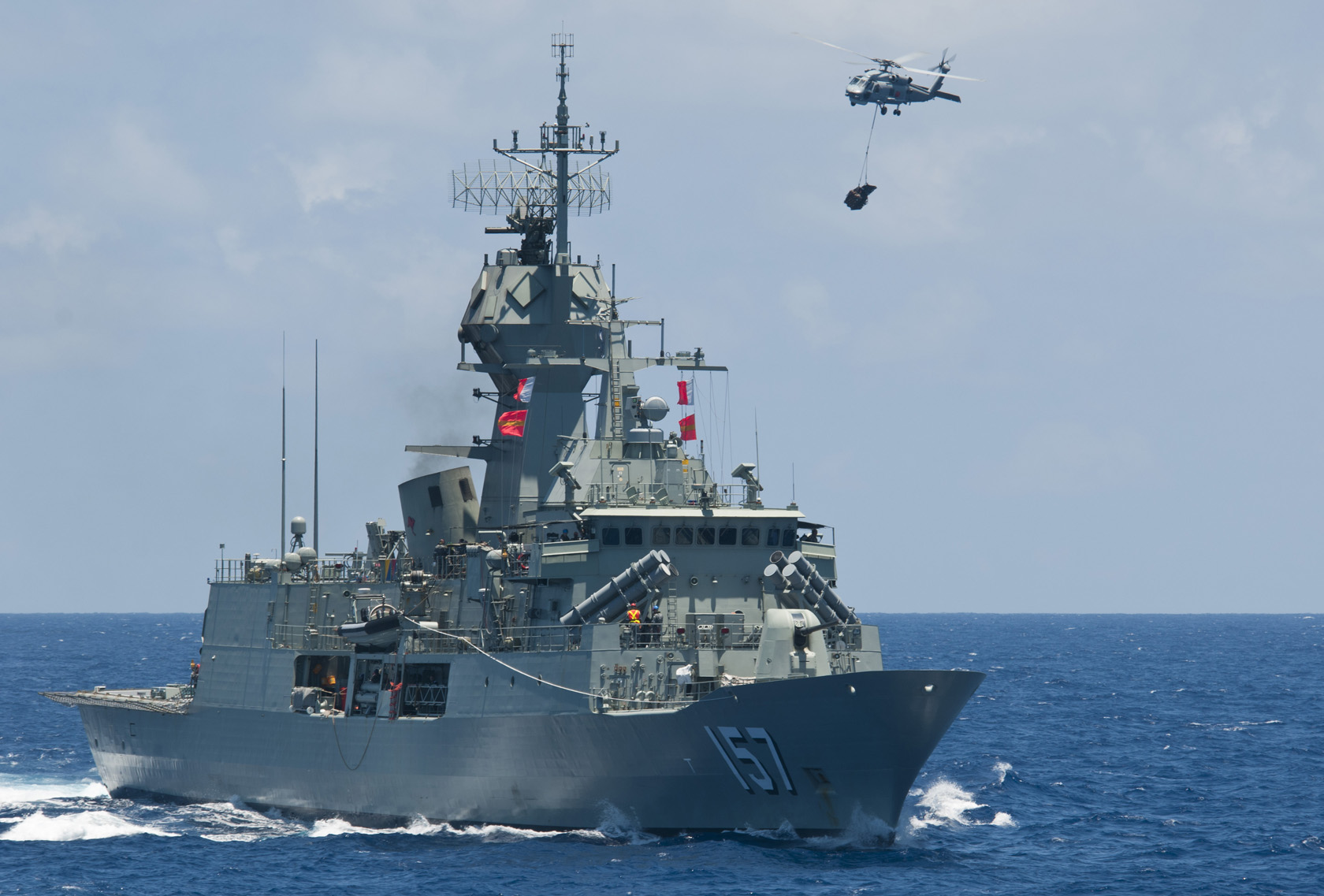 PACIFIC OCEAN (July 21, 2012) An S-70B Seahawk helicopter approaches the Royal Australian Navy Anzac-class frigate HMAS Perth (FFH 157) while conducting a vertical replenishment with the Military Sealift Command fleet replenishment oiler USNS Yukon (T-AO 202) during Rim of the Pacific (RIMPAC) 2012.